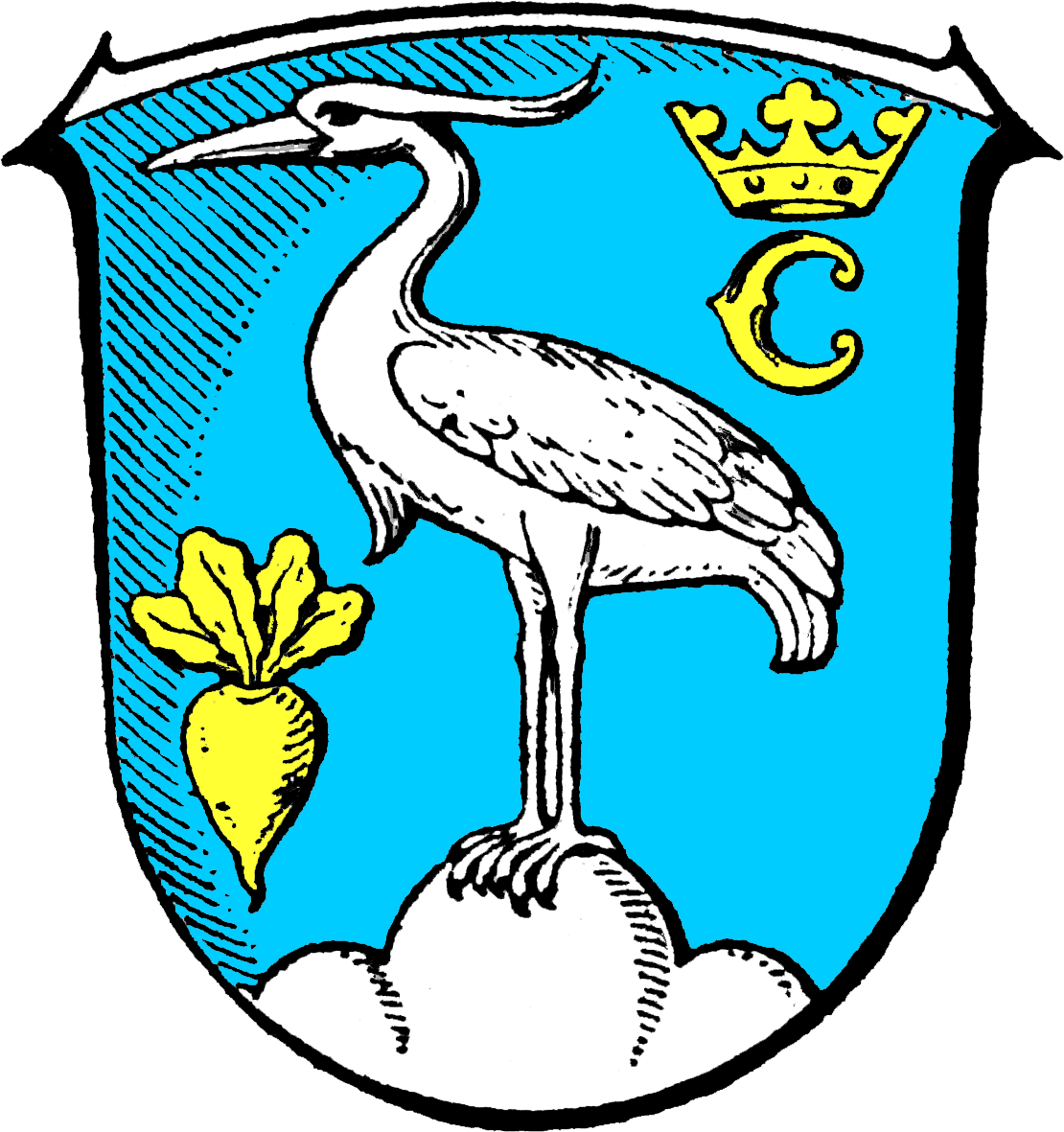 Coat of Arms of Wabern